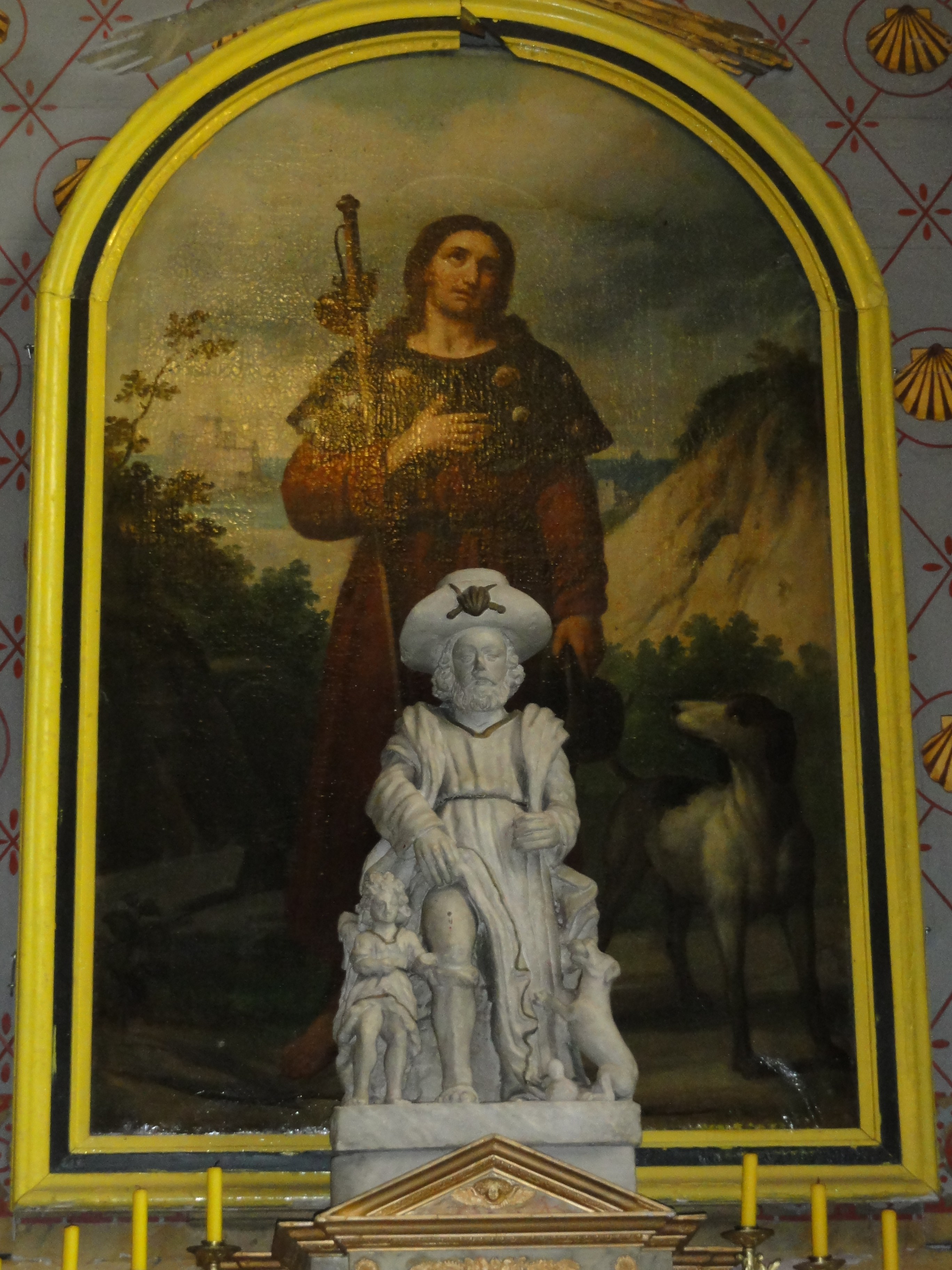 Pons (Charente-Maritime) église Saint-Martin, statue St Roch